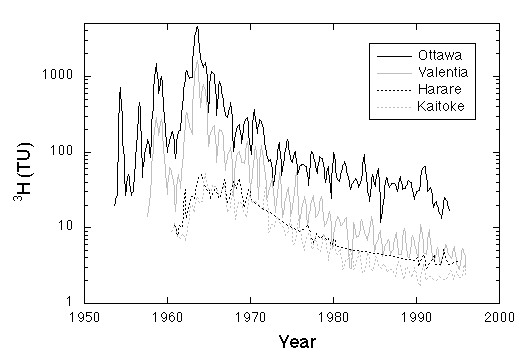 Tritium concentration in precipitation since 1950 at four IAEA stations (IAEA/WMO, 2006): Ottawa, Canada (northern hemisphere, continental); Valentia, Ireland (northern hemisphere, marine); Harare, Zimbabwe (southern hemisphere, continental); Kaitoke, New Zealand (southern hemisphere, marine).